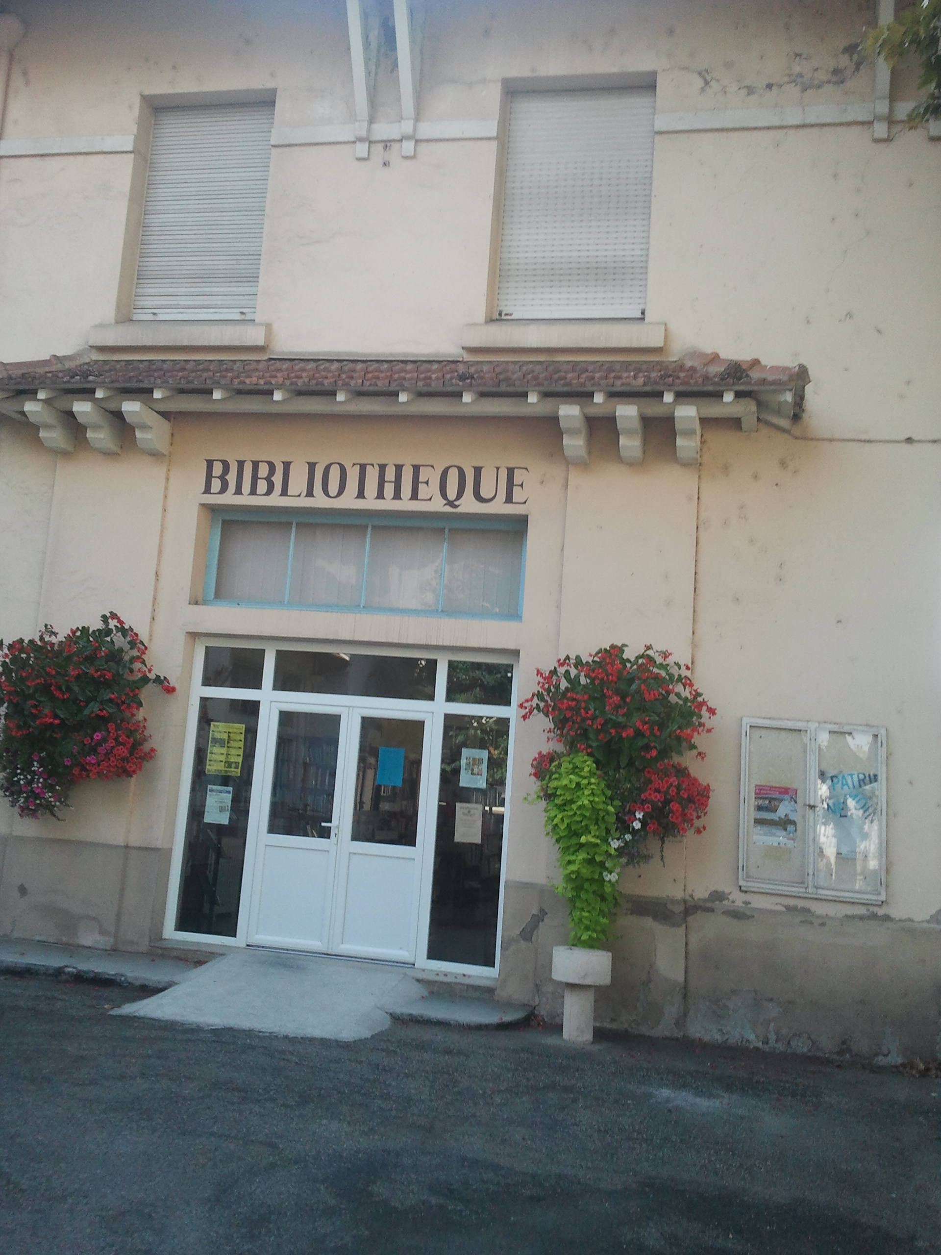 The public library in Espéraza